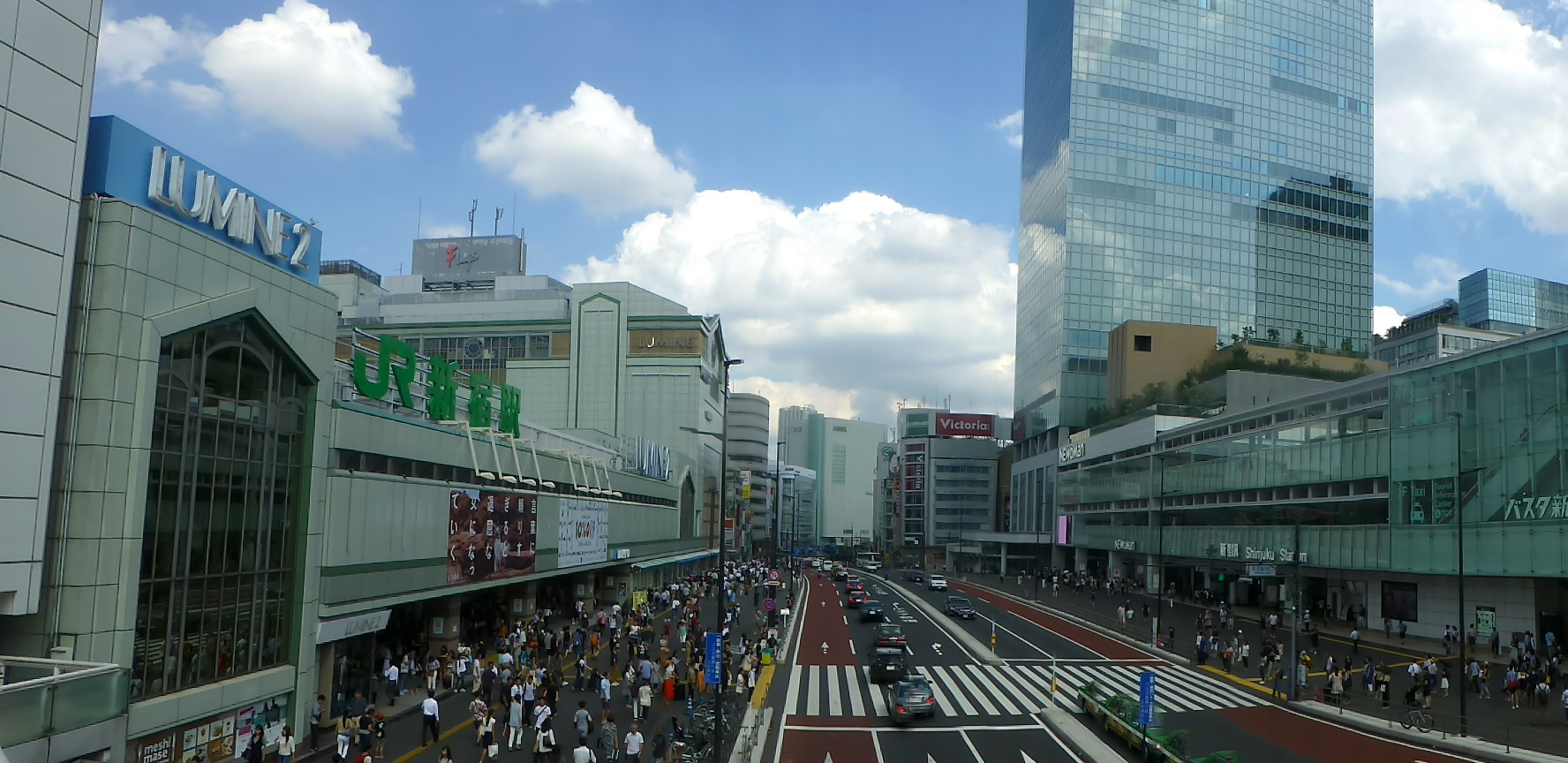 Shinjuku Expressway Bus Terminal and JR Shinjuku South Exit